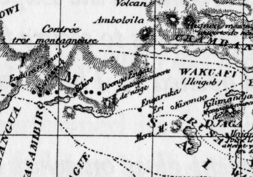 Region Arusha, Tanzania - An old map of Kilimanjaro, Ol Doinyo Lengai, Mount Meru, Bikiro mountain, Engaruka ruins